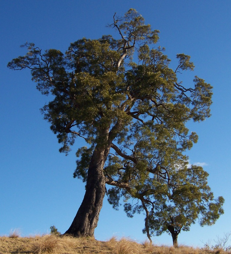 Réunion mountain tamarin (Acacia heterophylla) - Old tree in the meadows of la Plaine des Cafres (Réunion island)